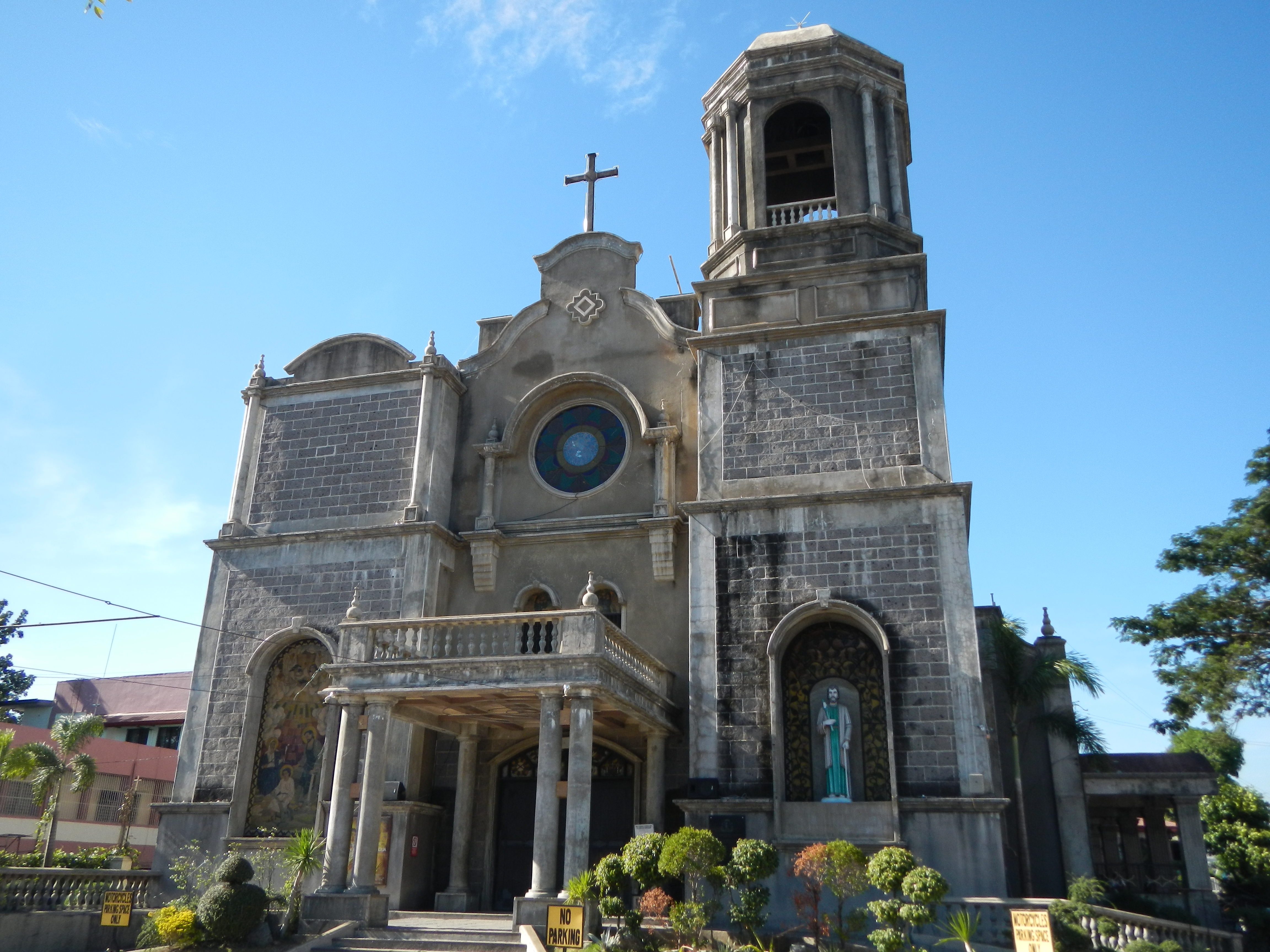 1946 Cathedral of Saint Joseph the Worker of San Jose,[1]The Roman Catholic Diocese of San Jose in the Philippines (Lat: Dioecesis Sancti Iosephi in Insulis Philippinis) is an ecclesiastical territory or diocese of the Latin Rite of the Roman Catholic Church in the Philippines.[2]Vicariate of St. Joseph Titular:Saint Joseph the Worker Current Parish Priest: Father Cesar C. Vergara, assisted by Fr. Remigio "Baby" Malga and Fr. Jun Flores, San Jose City, 3121 Nueva Ecija, Philippines Population: 108,155 Catholics: 0.85%[3] Bishop Robert Callara Mallari, DD[4]May 15, 2012[5][6][7][8][9][10]Solemnly blessed and decicated on March 20, 2006.[11]